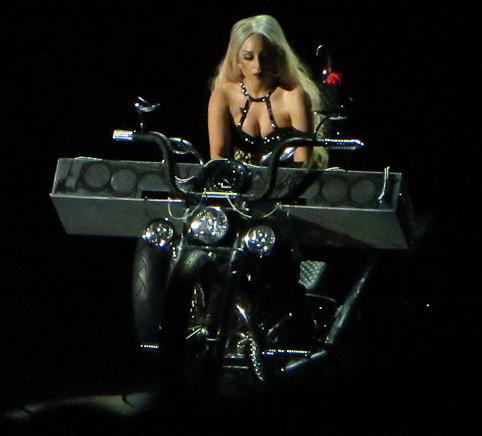 Gaga performing at the Born This Way Ball in Hong Kong